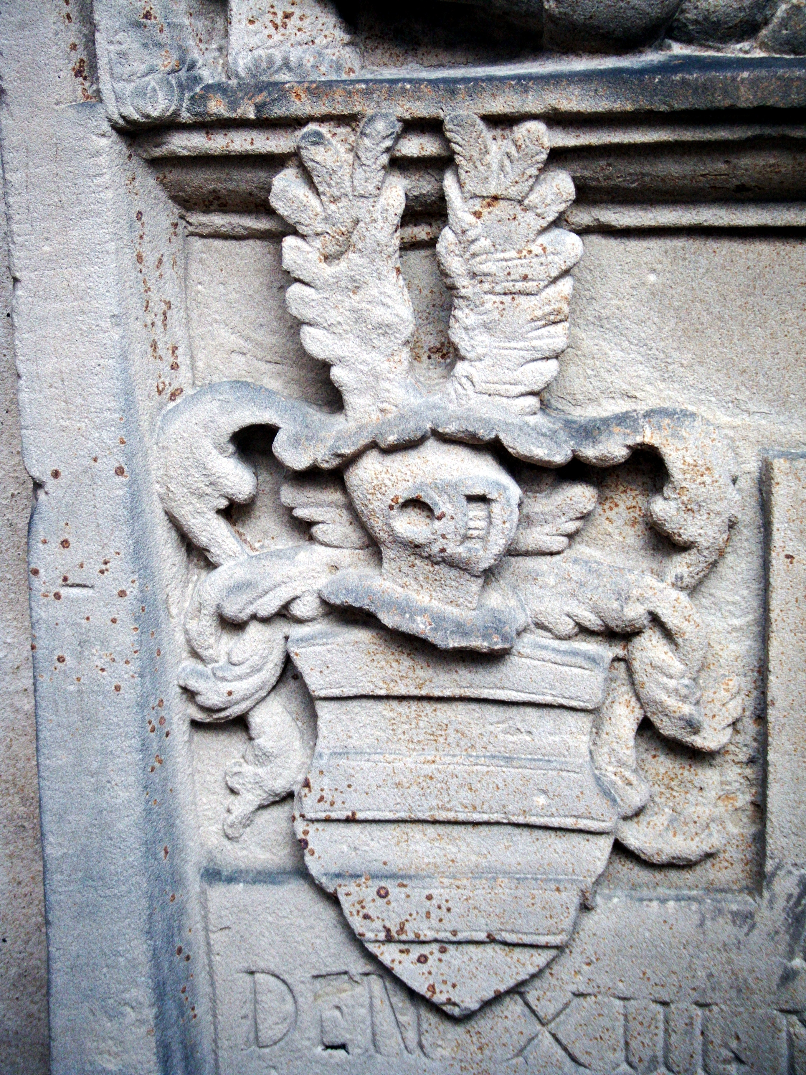 Wappen der Adelsfamilie von Zeiskam auf dem Epitaph Wilhelms von Löwenstein (+ 1579), Pfarrkirche St. Ulrich, Deidesheim